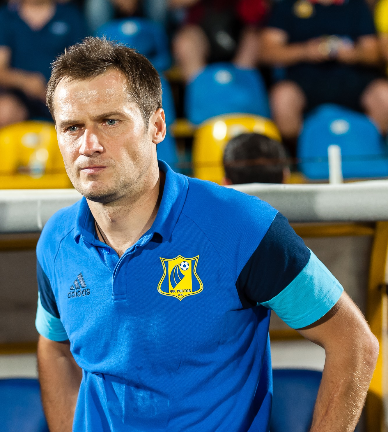 Dmitri Kirichenko managing FC Rostov in a game against FC Ural Sverdlovsk Oblast.